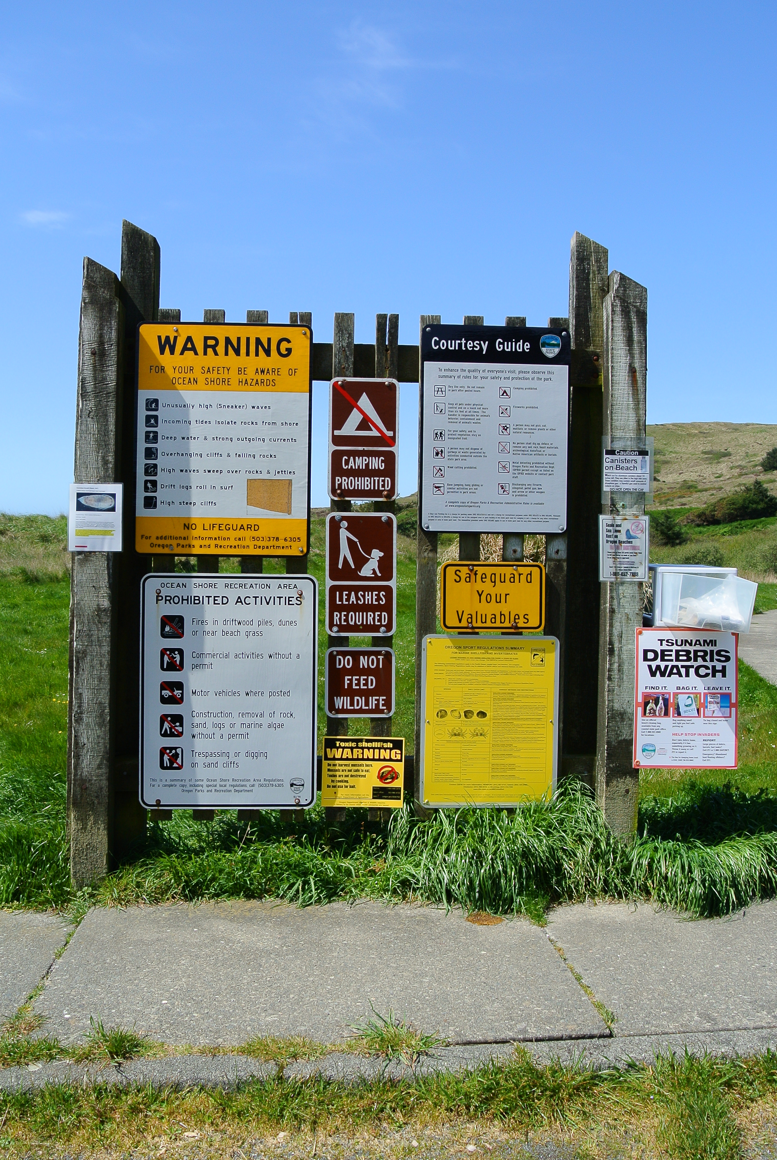 Safety instructions on Lone Ranch Beach, Oregon.